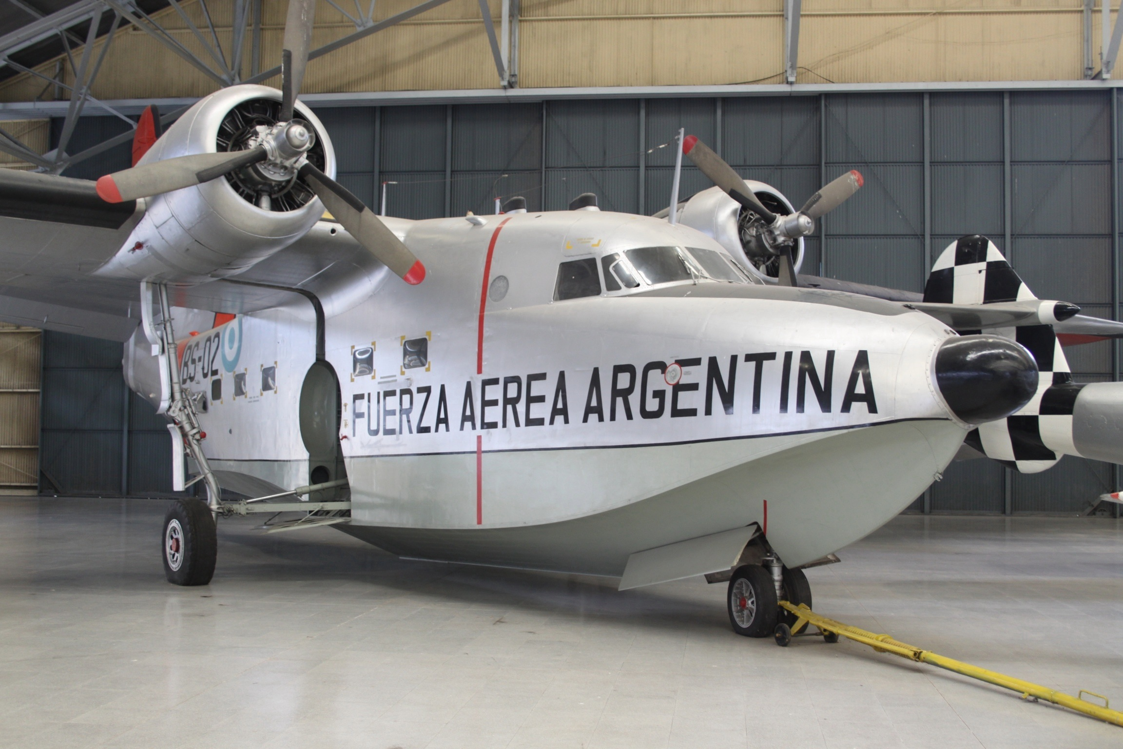 At Moron Museo Nactional De Aeronautica